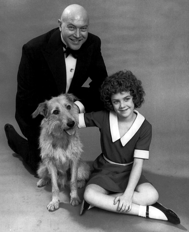 Publicity photo of Andrea McArdle as Annie, Reid Shelton as Daddy Warbucks and Sandy from the Broadway musical Annie.